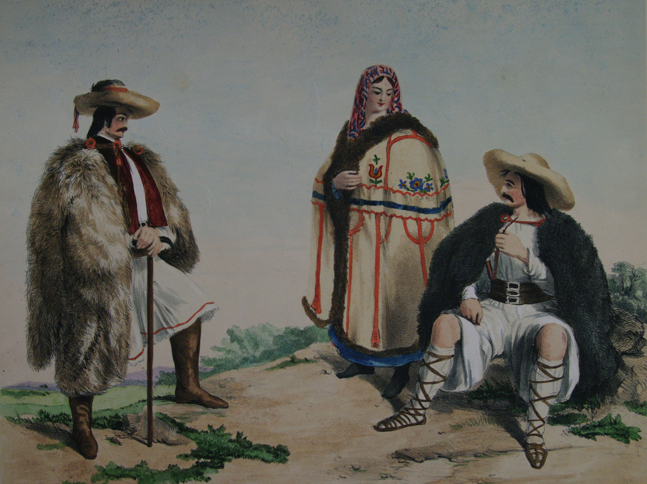 Peasants of Hadad - Transylvania